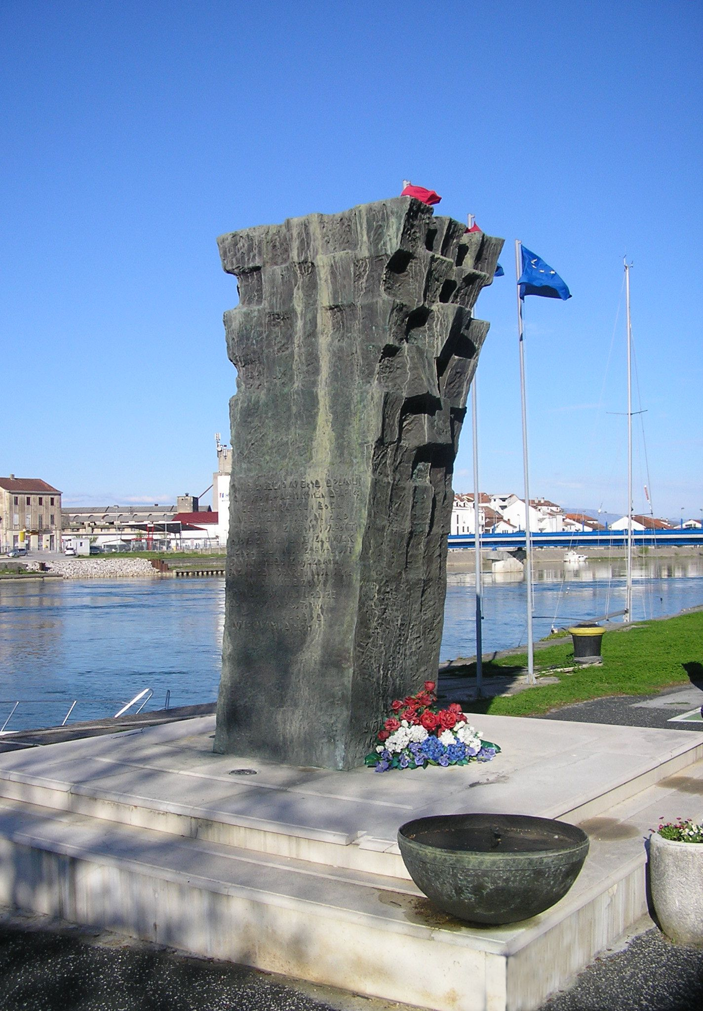 Monument to the defenders of Metković in Croatian War of Independence